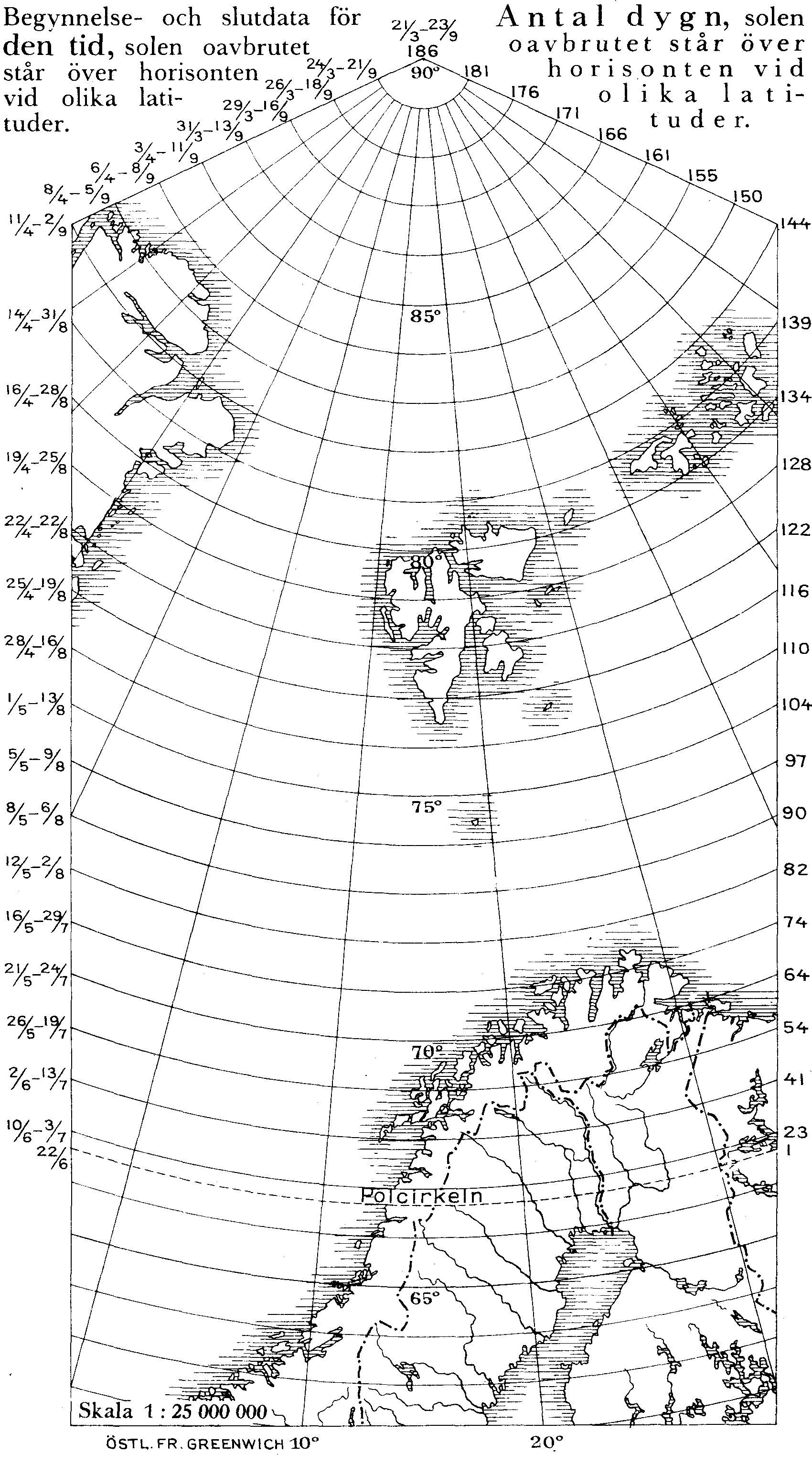 Dates (day/month) for the midnight sun at different latitudes (left side; e.g. May 21 to July 24 at 70° N) and total number of nights of midnight sun (right side).